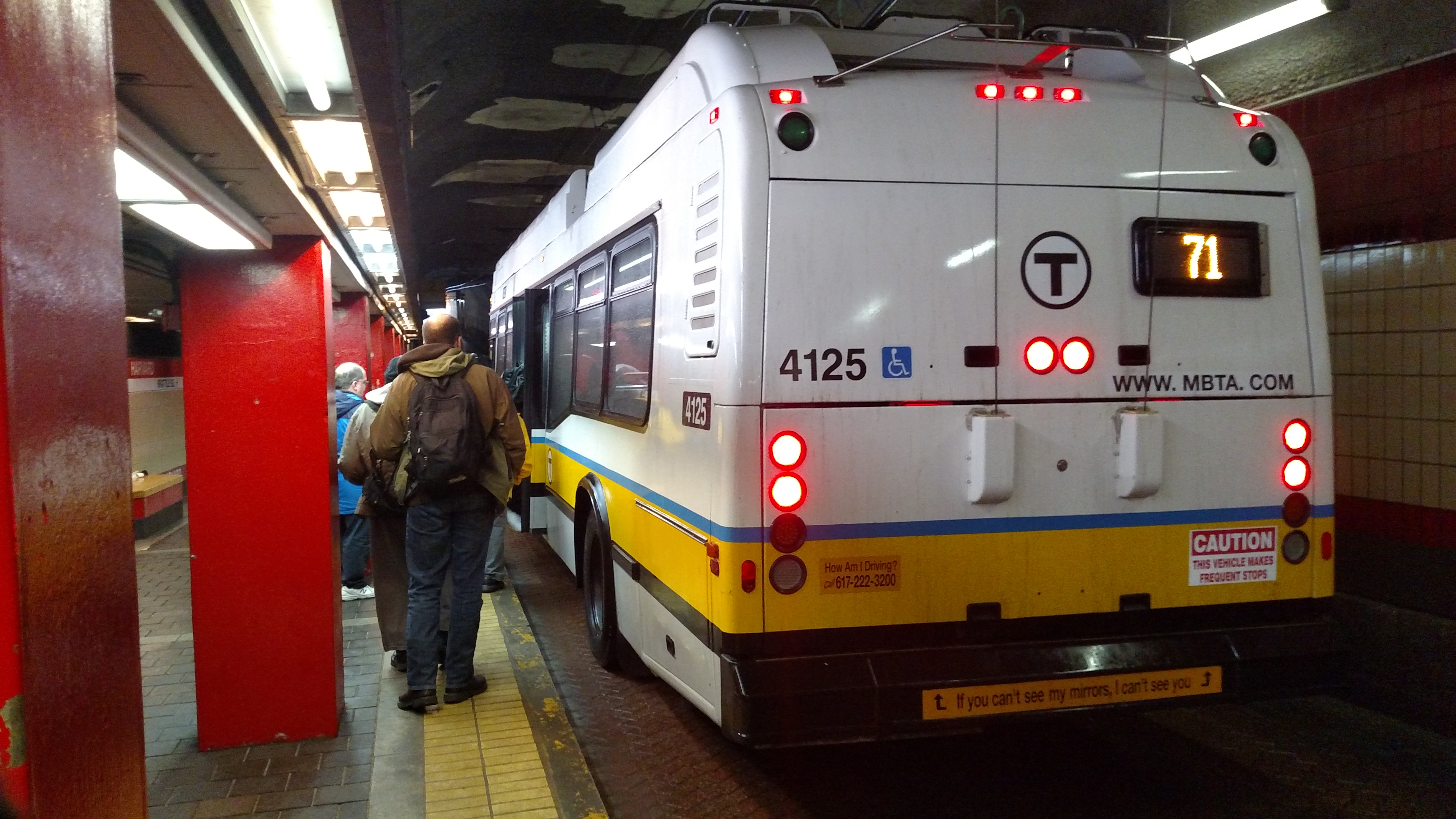 A route 71 trackless trolley loading with the left-side door at Harvard station in March 2017